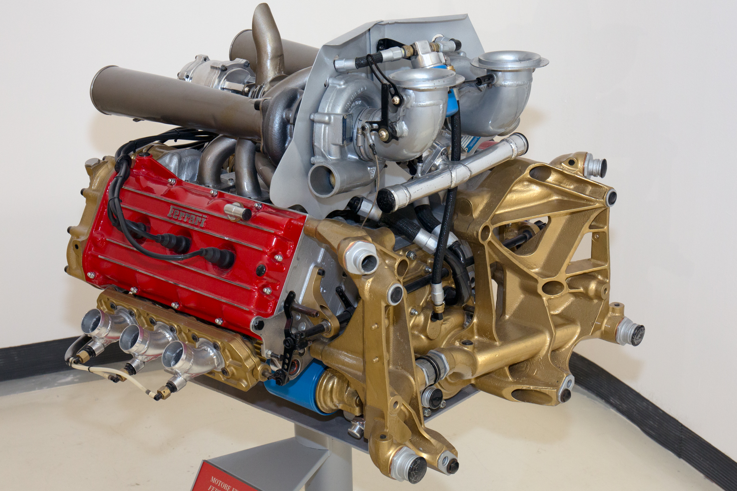 Ferrari Tipo 021 engine (1981) of the Ferrari 126CK